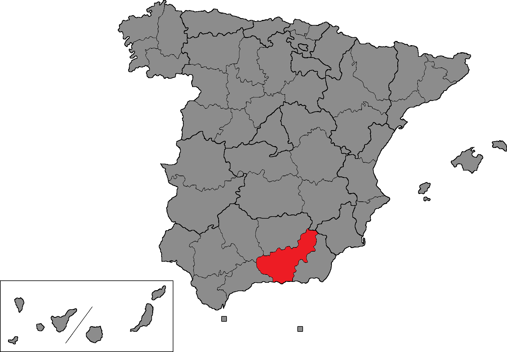 Spanish Congress of Deputies district of Granada.